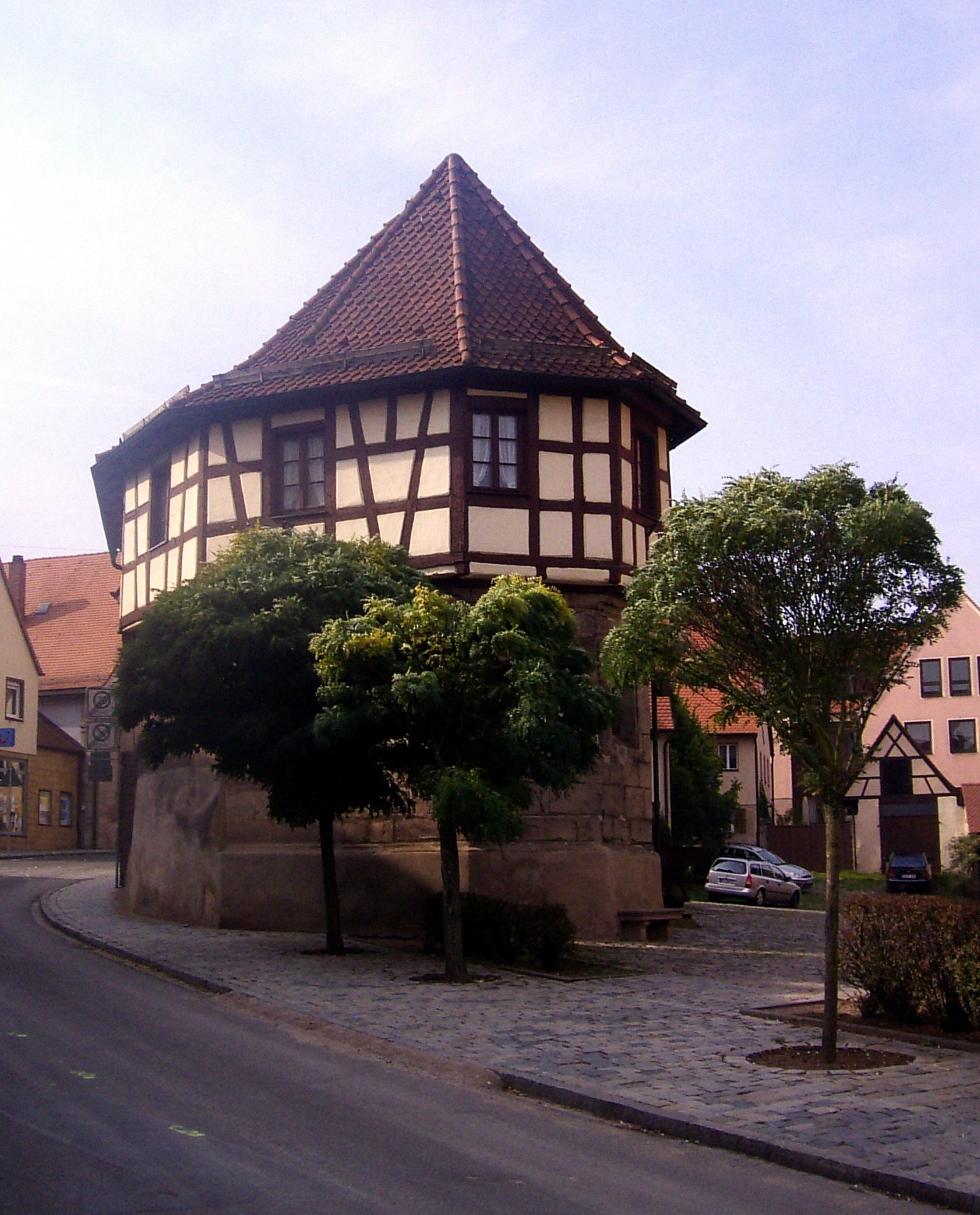 Langenzenn Hindenburgstrasse 4